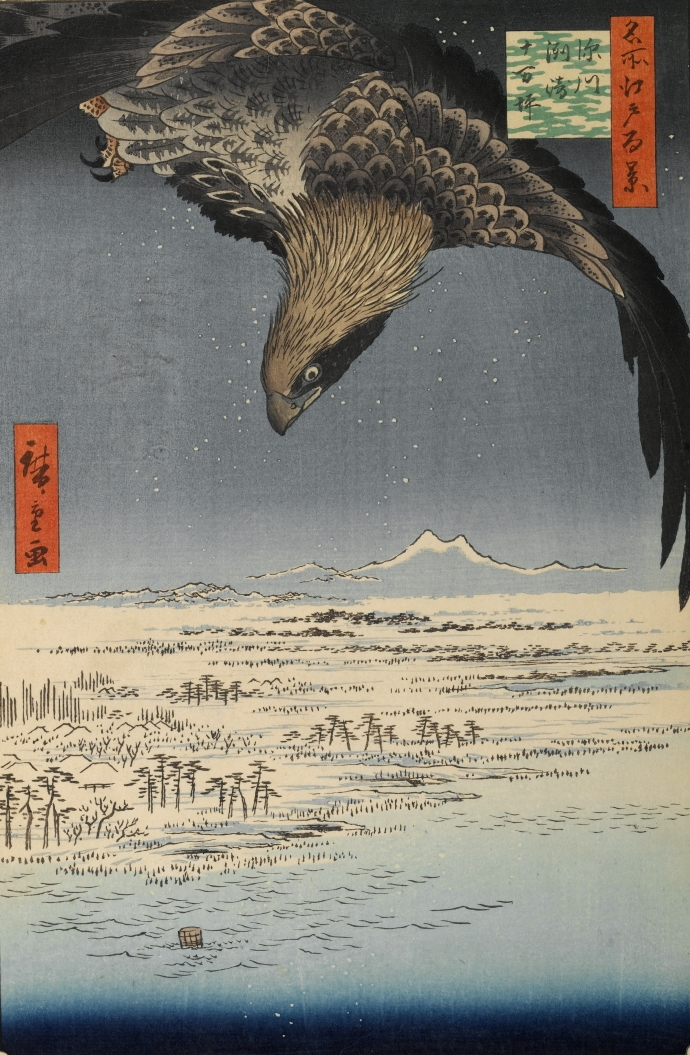 Part of the series One Hundred Famous Views of Edo, no. 107, part 4: Winter.